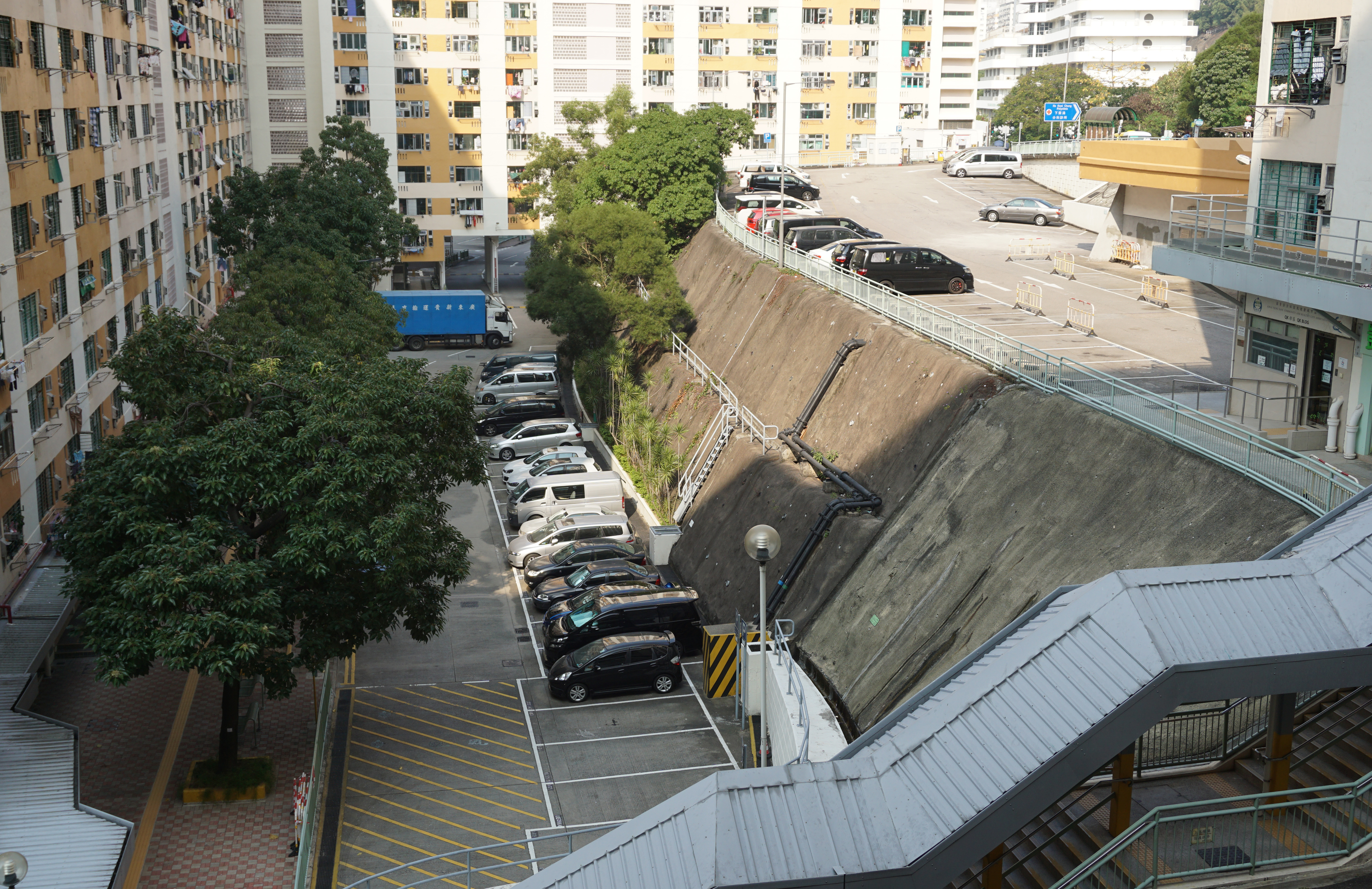 Lai King Estate in Lai King, Hong Kong.